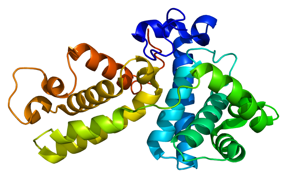 Structure of the CCNK protein. Based on PyMOL rendering of PDB 2i53.